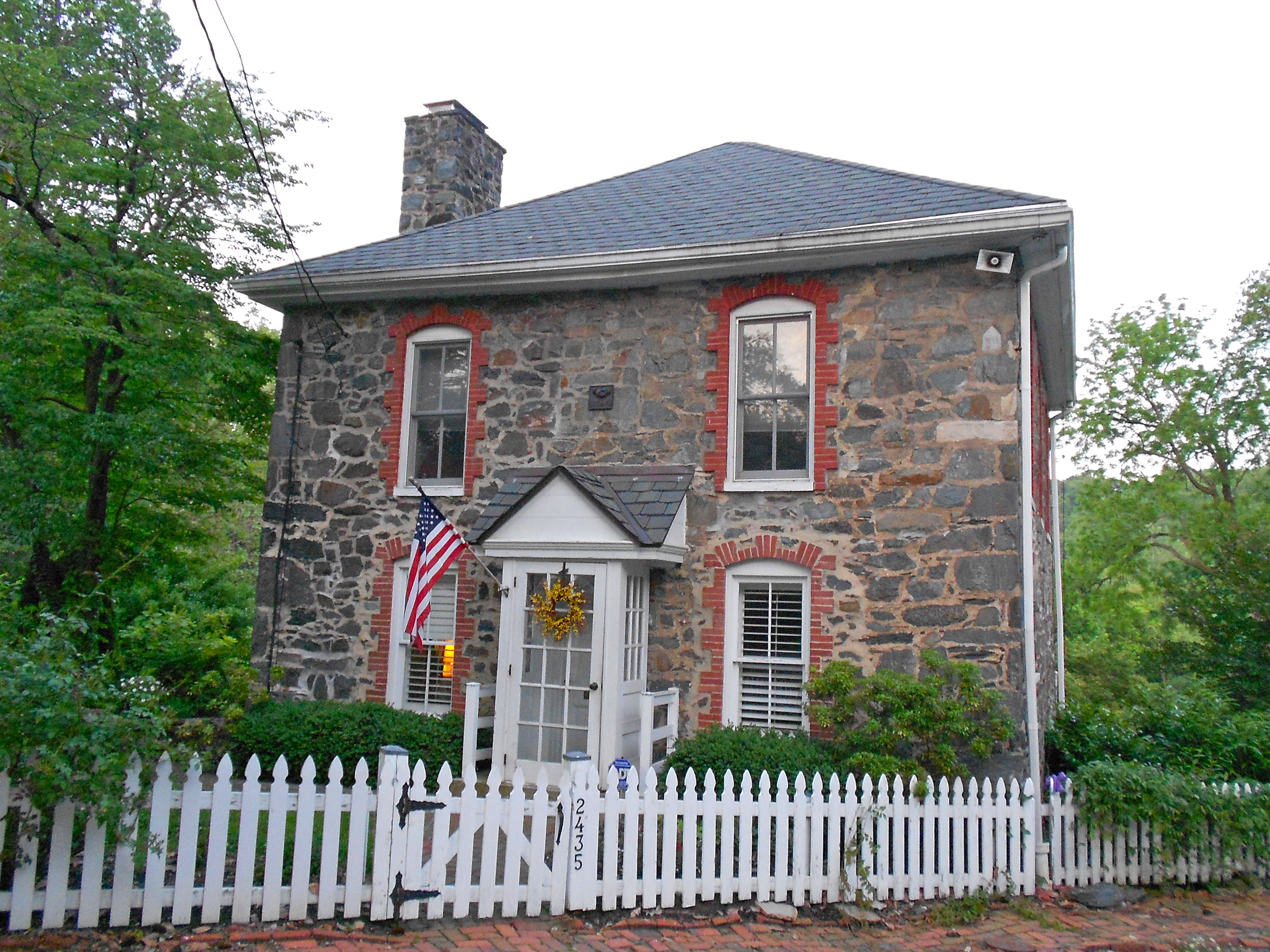 House in the Dickeyville Historic District on the NRHP since July 12, 1972 On Pickwick and Weathedsville Roads in Gwynn's Falls area of Baltimore, Maryland.